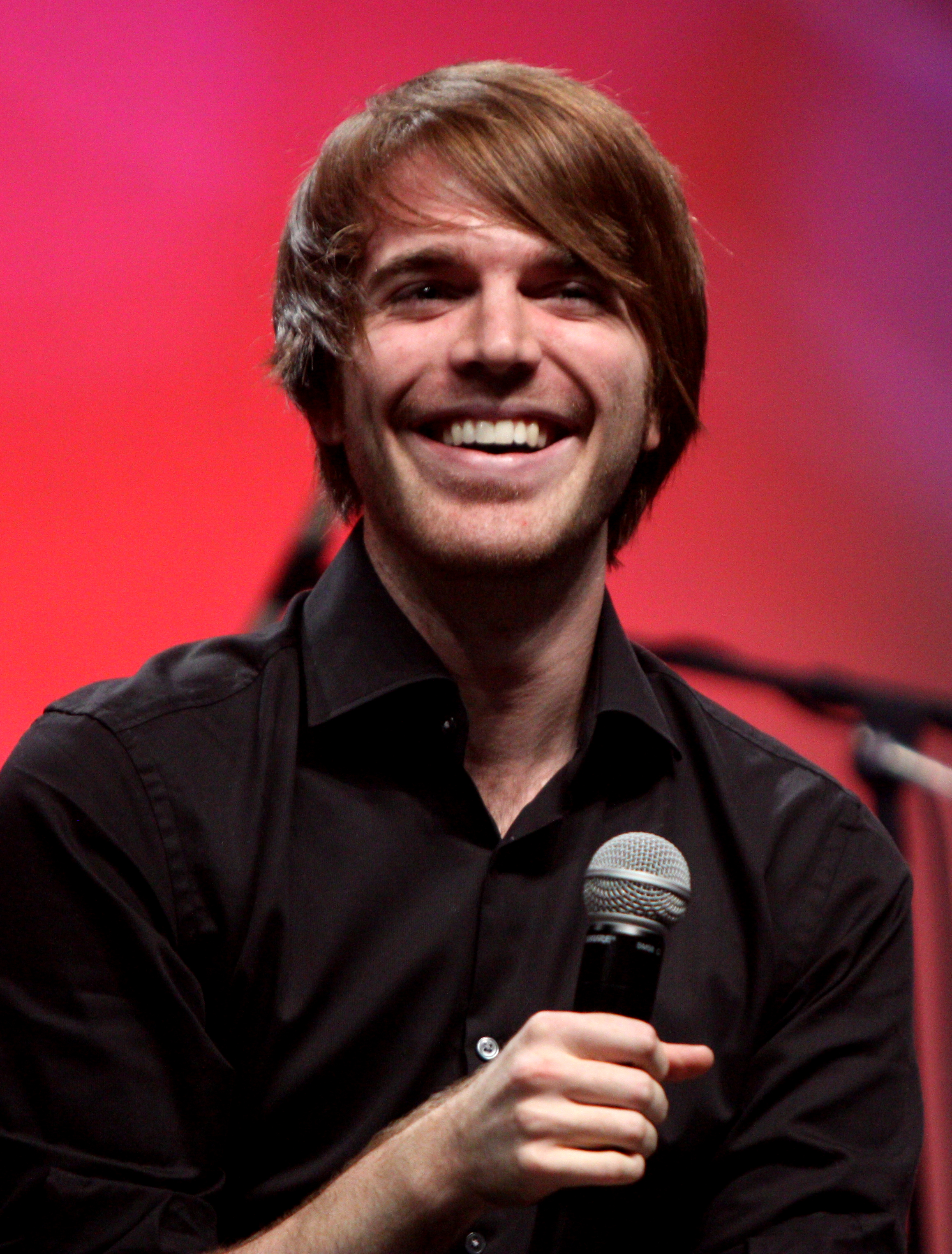 Shane Dawson at the 2012 VidCon in Anaheim, California.